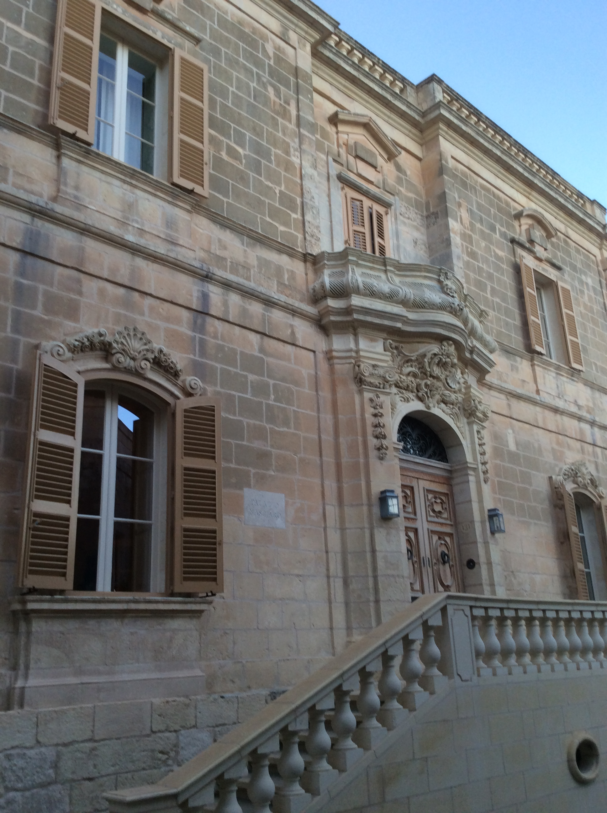 Palazzo Nasciaro Naxxar Private residence